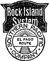 Rock Island System, Southern Pacific Company "El Paso Route"